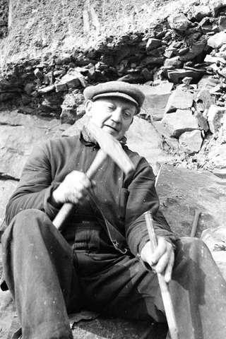 Road worker with hammer and chisel at Drammensveien, Oslo